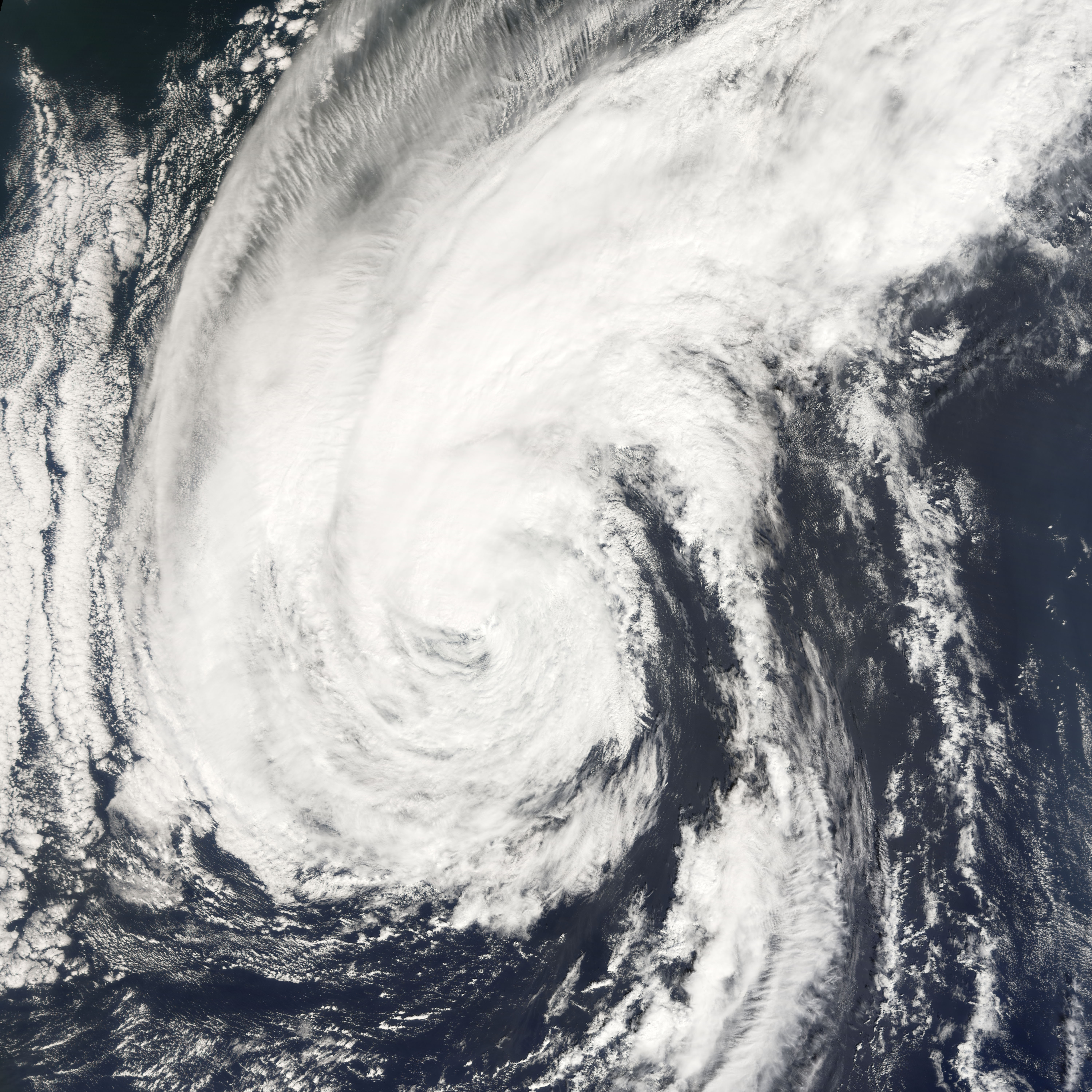 Hurricane Helene was the fourth hurricane of the 2006 Atlantic hurricane season. Like Gordon and Florence before it, Helene made no landfall over the North American mainland, where a persistent high-pressure pattern along the coast had been steering tropical storm systems away into the North Atlantic. As of September 25, Helene was a tropical storm in the northern part of the Atlantic Ocean, but it had been a powerful Category 3 hurricane for several days before its travel to the north. This photo-like image was acquired by the Moderate Resolution Imaging Spectroradiometer (MODIS) on NASA’s Terra satellite on September 22, 2006, at 11:15 a.m. local time (13:15 UTC). Helene is a well-defined, sprawling storm system with long spiral arms, but the center of the storm is no longer tightly wound. Cloud bands from outside the storm’s center reach into the eye, suggesting that Helene lacks a complete eyewall. Though still a very powerful hurricane at the time of the image, Helene appears to be declining in power. According to the University of Hawaii’s Tropical Storm Information Center, Helene had sustained winds reaching as high as 110 kilometers per hour (70 miles per hour).